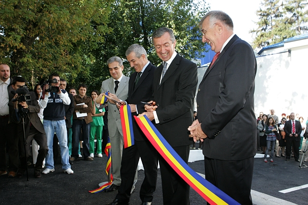 The opening of the Filantropia Hospital in Bucharest: from left to right: public healthcare minister Eugen Nicolaescu, prime minister Călin Popescu-Tăriceanu, prof. dr. Gheorghe Peltecu, district 1 mayor Andrei Chiliman